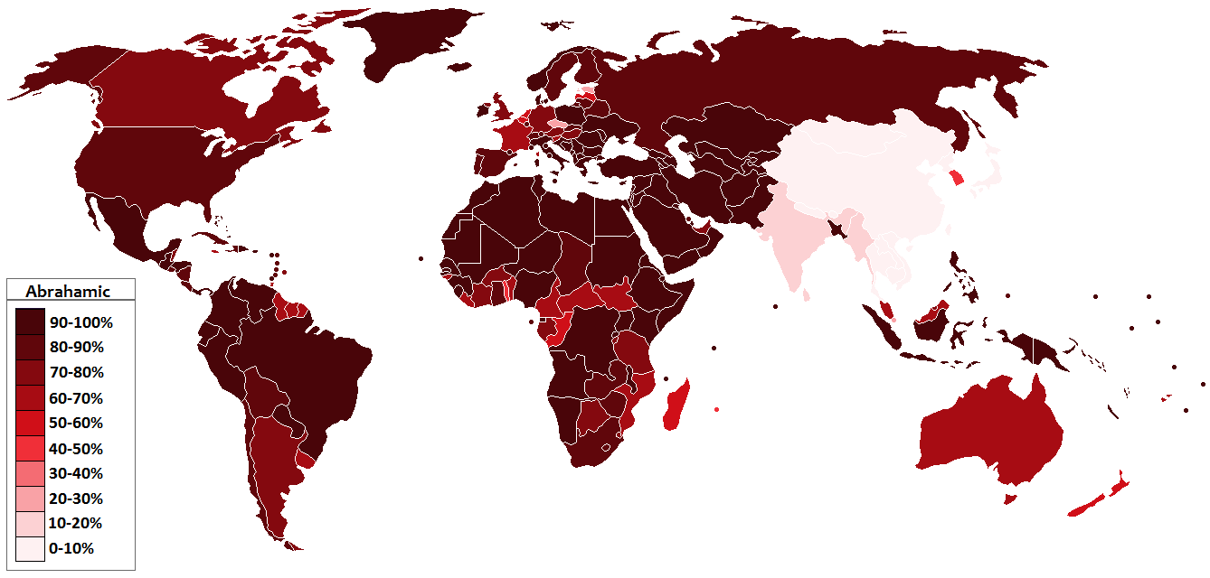 A map showing the percentage of adherentes of Abrahamic religions.